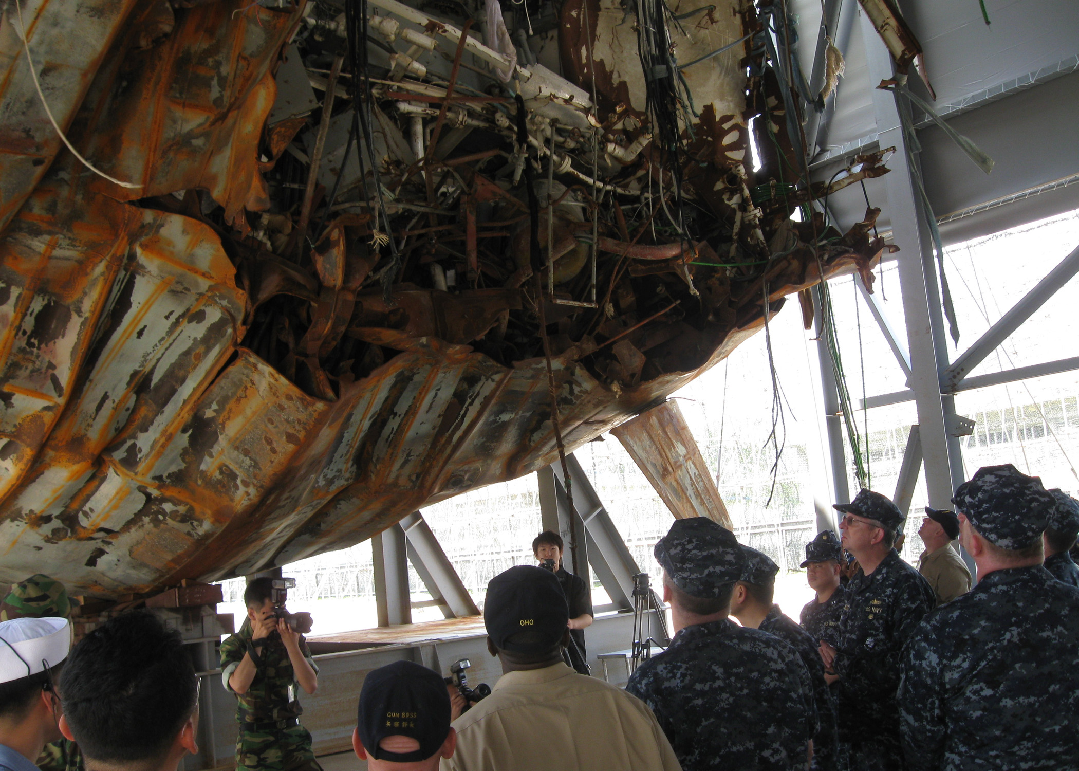 Sailors from USS George Washington (CVN 73) and Carrier Task Force (CTF) 70 along with Republic of Korea service members attend a debriefing on the wreckage of the Republic of Korea (ROK) ship Cheonan March 26 sinking. The US Navy maintains a robust forward presence in the Asia-Pacific region and George Washington’s visit is an example of the strong alliance the U.S. maintains with the ROK. This marks the first port visit for George Washington during its 2010 Western Pacific summer patrol and the second visit to Busan by the ship since October of 2008.